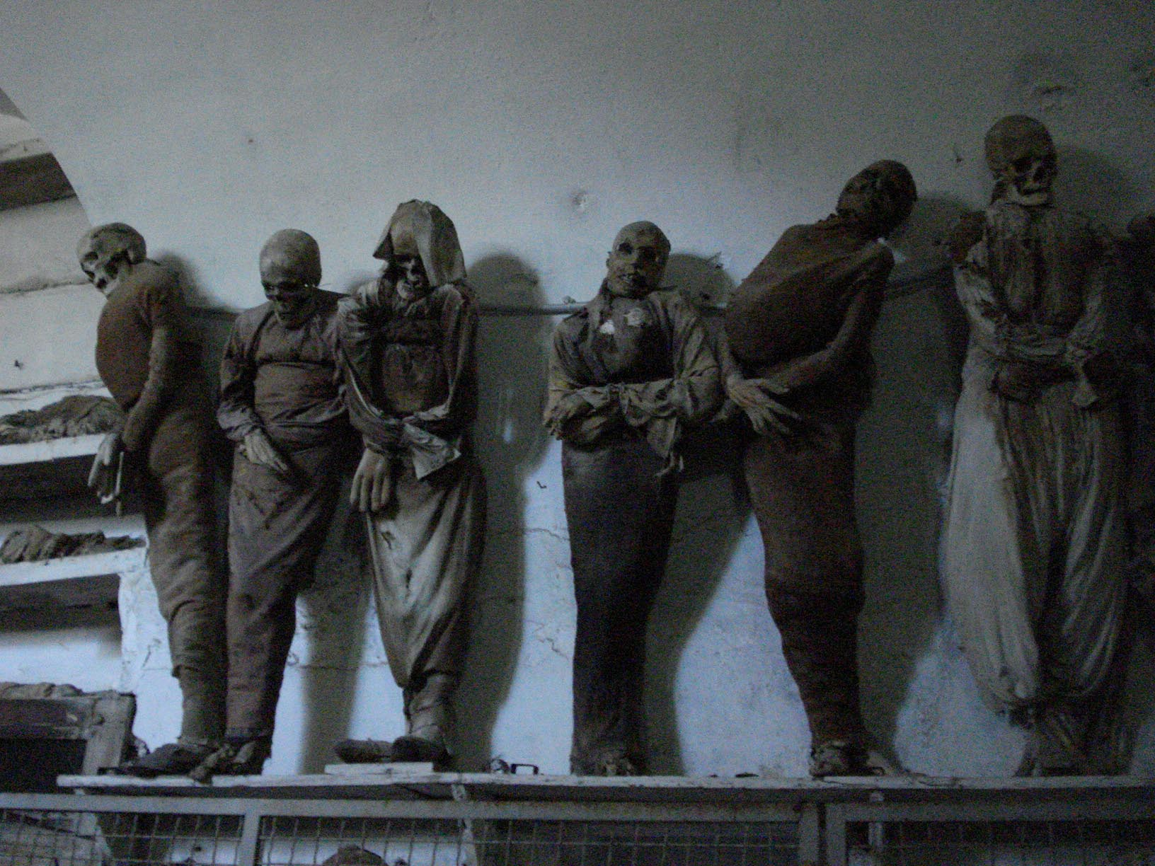 Men's Corridor in Capuchins' Catacombs